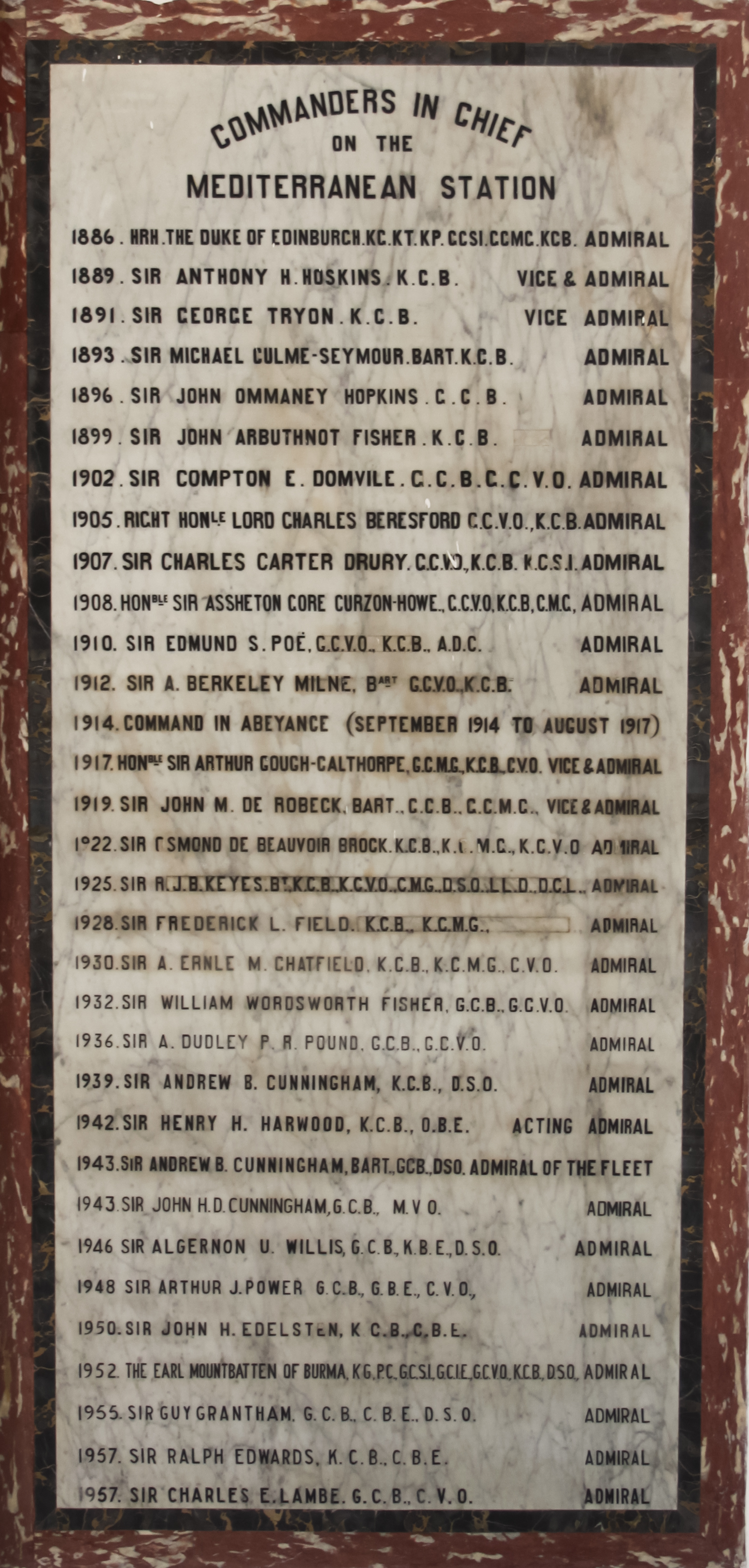 Commanders in Chief of the Mediterranean Station, 1886-1957. Memorial tablet in the ex-Admiralty of the British Fleet, now Museum of Fine Arts, Valletta, Malta